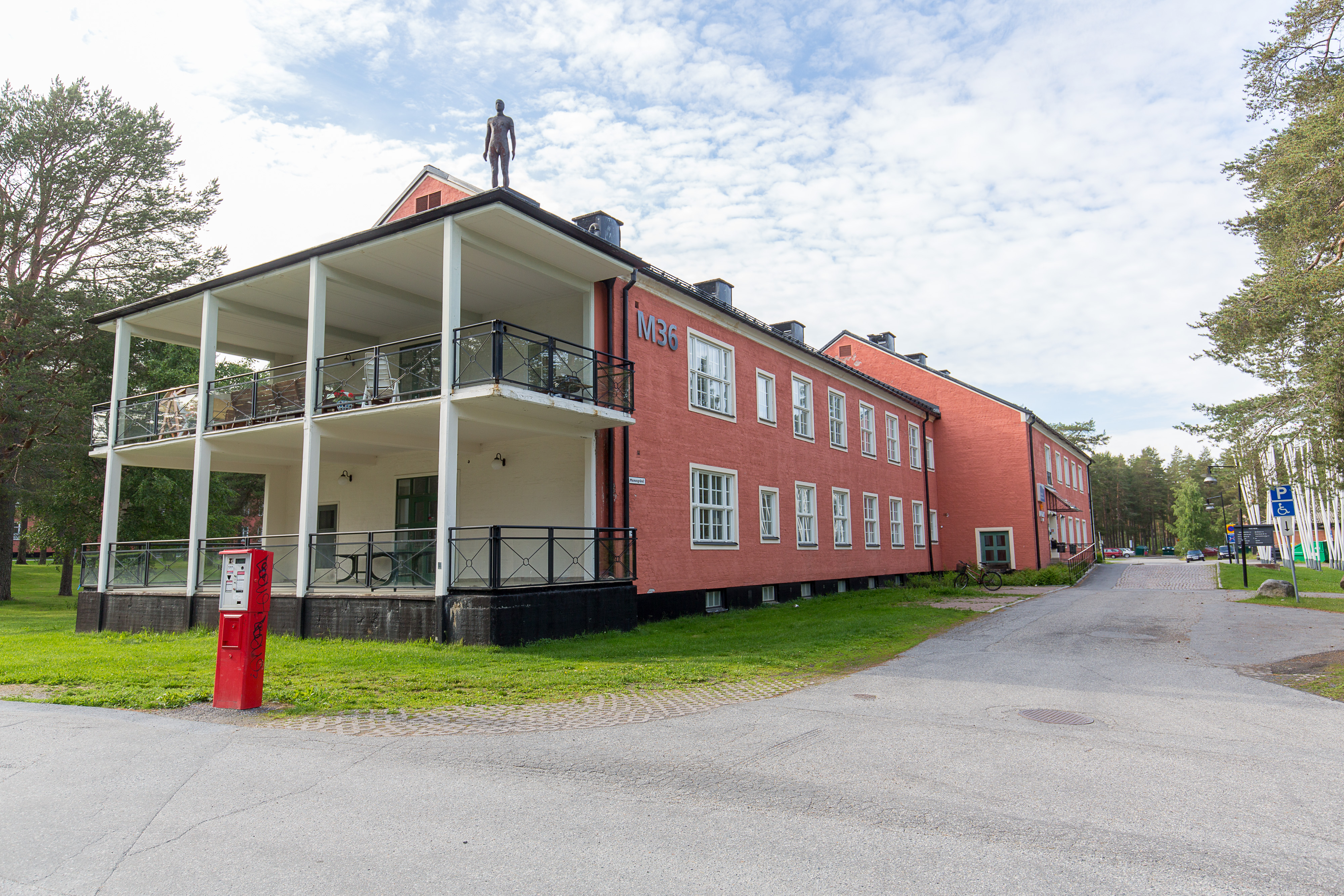 Umedalens sjukhus was built as a psychiatric hospital, but now harbors a kindergarten, schools and a health central.